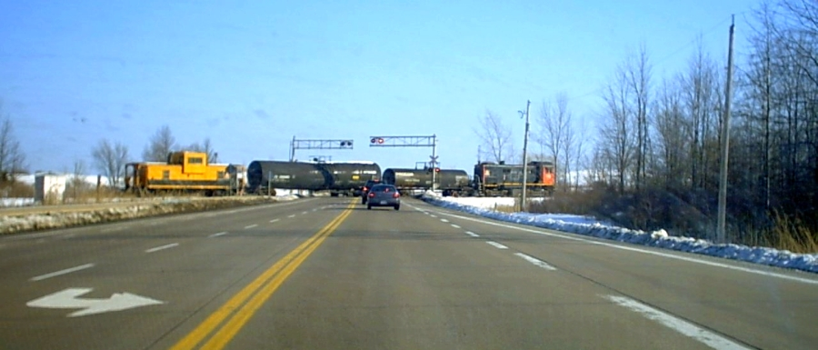 A short train crossing Highway_406_(Ontario) from East to West. The Woodlawn Road onramp is to the right, one of the shortest onramps of any 400 series highway. Photograph taken by me, April 1, 2005.